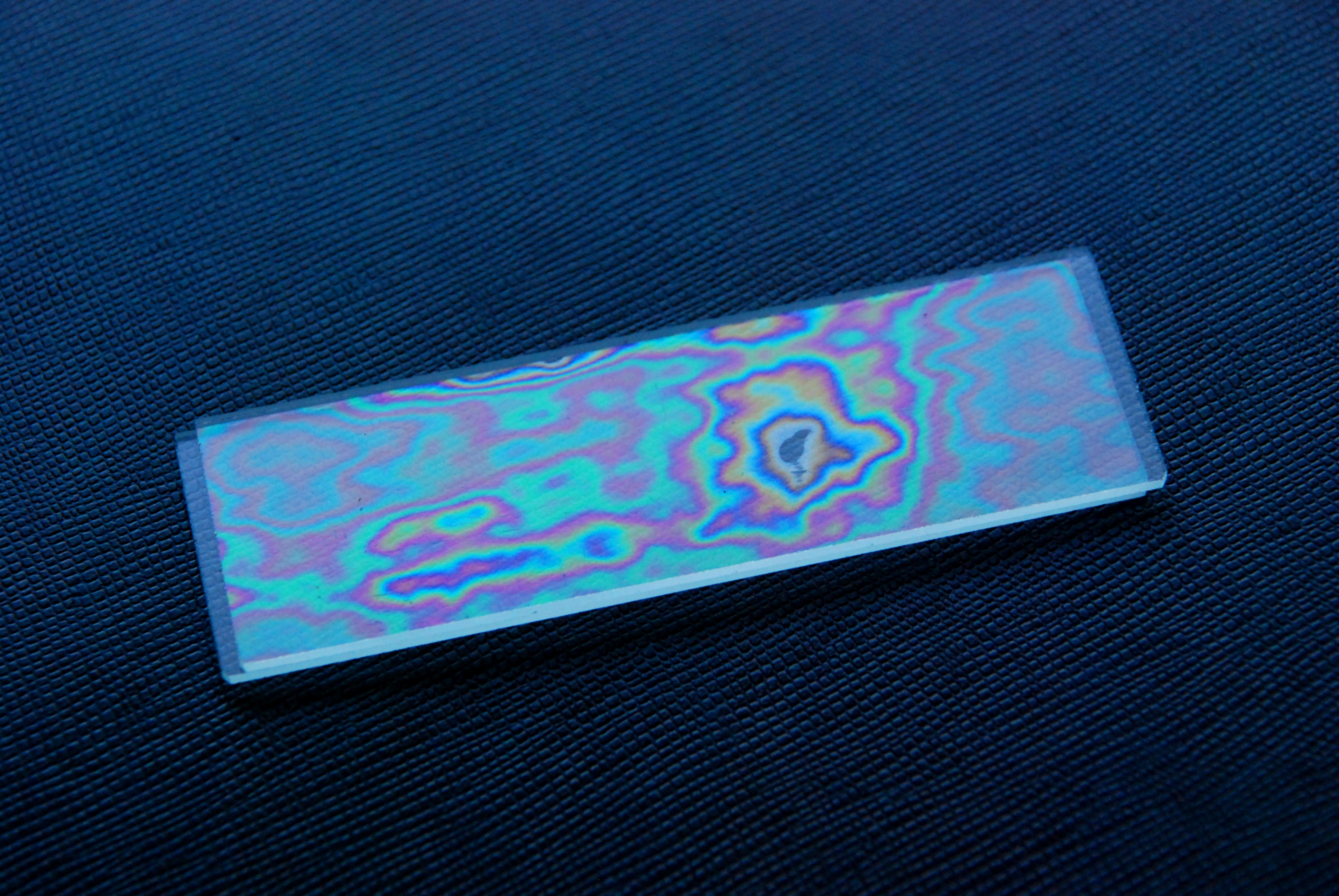 Interference pattern between two microscope slides.